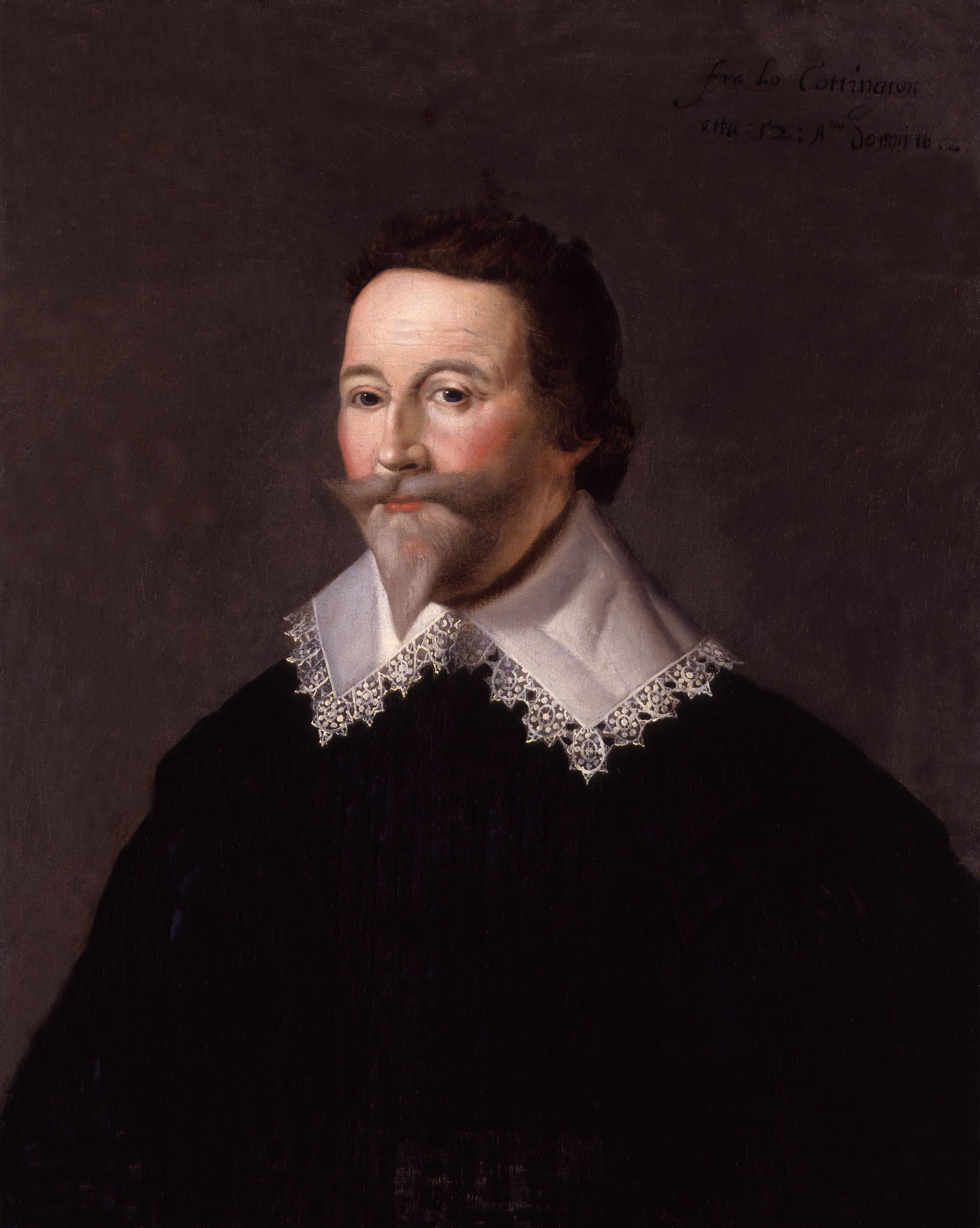 Francis Cottington, 1st Baron Cottington, by unknown artist. All images in this batch are listed as "unknown author" by the NPG, who is diligent in researching authors, and was donated to the NPG before 1939 according to their website.